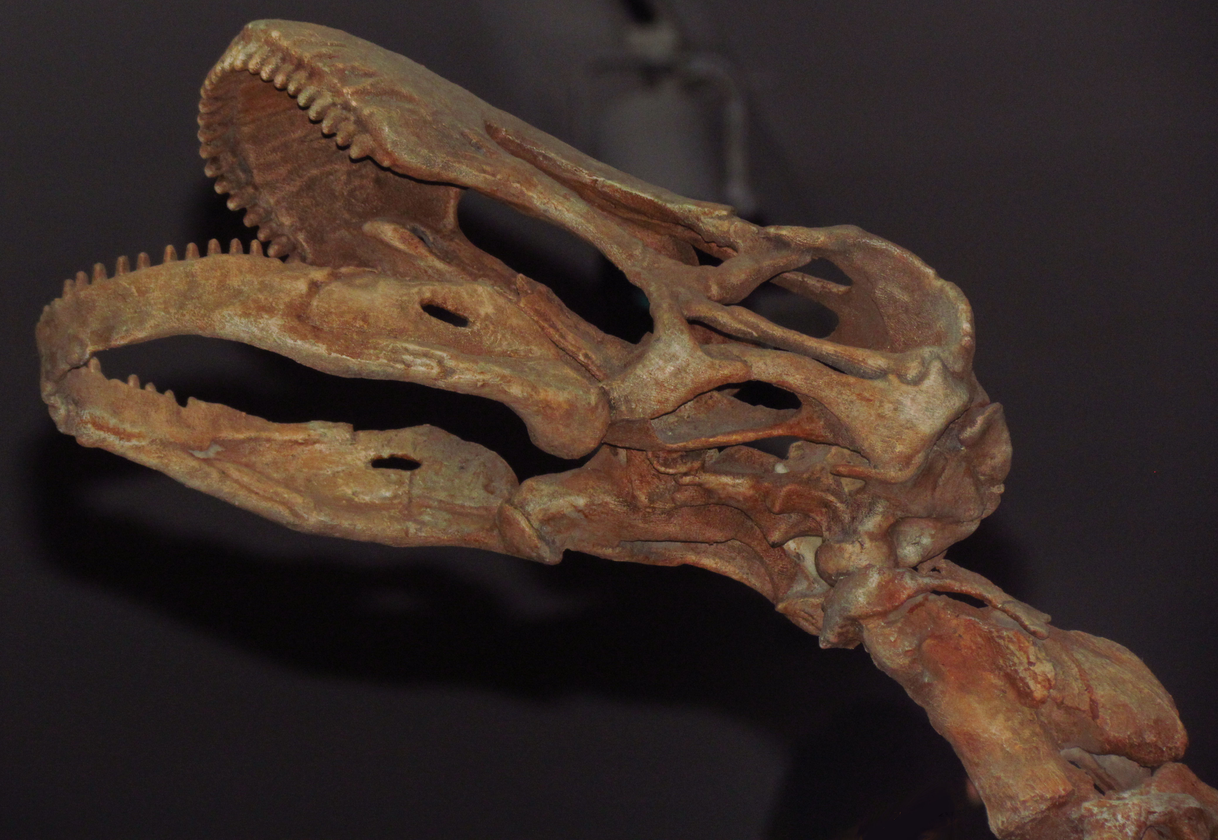 Rapetosaurus krausei, cast skull, Royal Ontario Museum, Toronto, Ontario, Canada